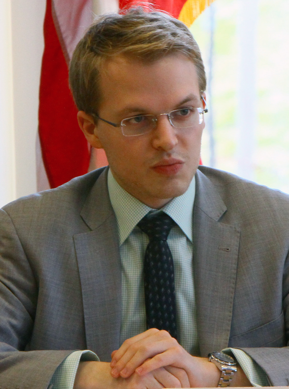 Ronan Farrow visits Kyiv